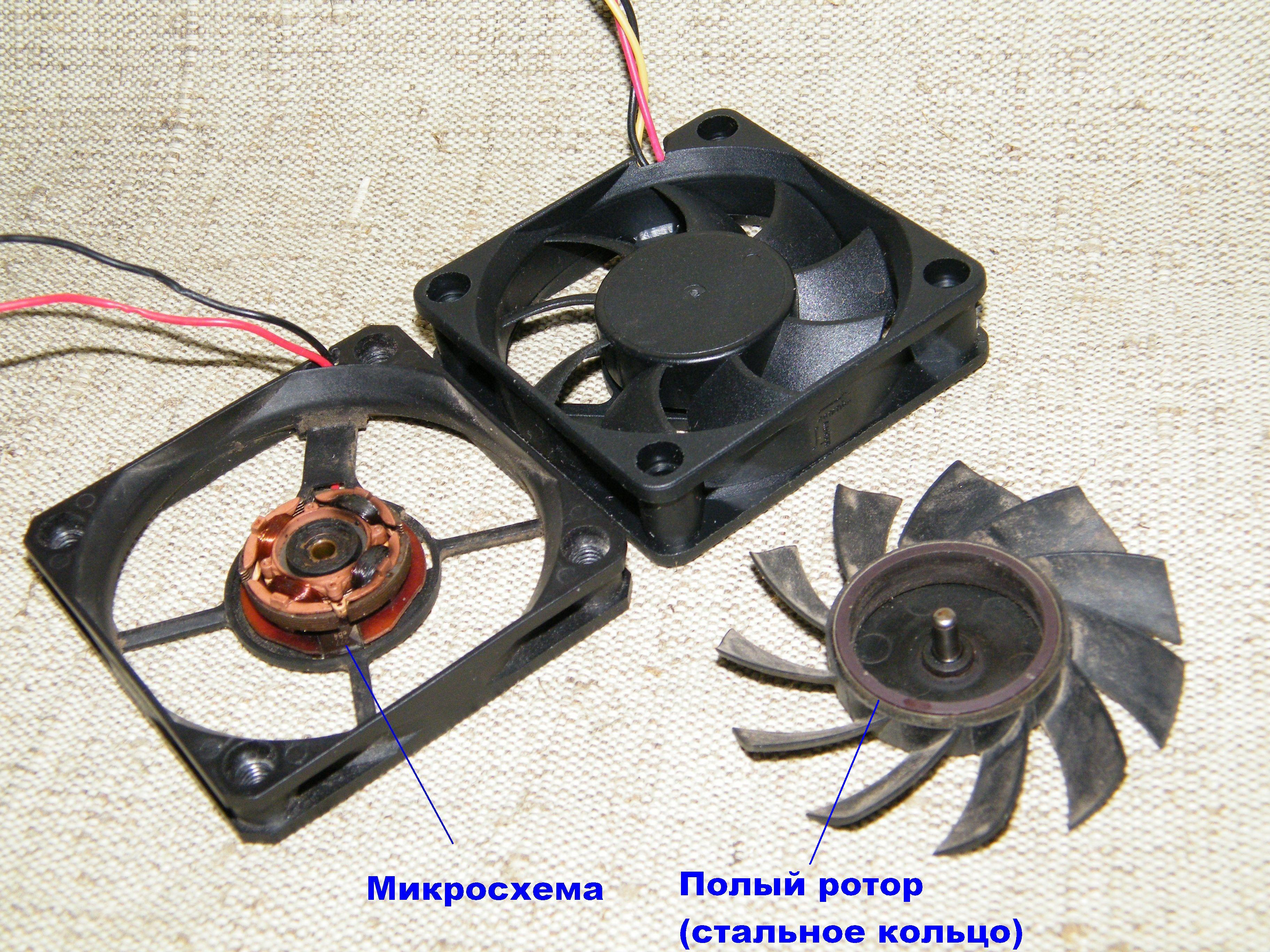 Двухфазный двигатель переменного тока в компьютерном вентиляторе